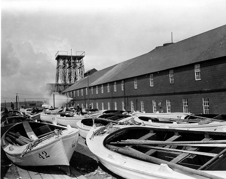 From John Cobb field notebook: Getting the fishing boats ready at P.H.J. 1917 Subjects (LCTGM): Fishermen--Alaska--Nushagak; Fishing boats--Alaska--Nushagak; Canneries--Alaska--Nushagak Subjects (LCSH): Salmon industry--Alaska--Nushagak